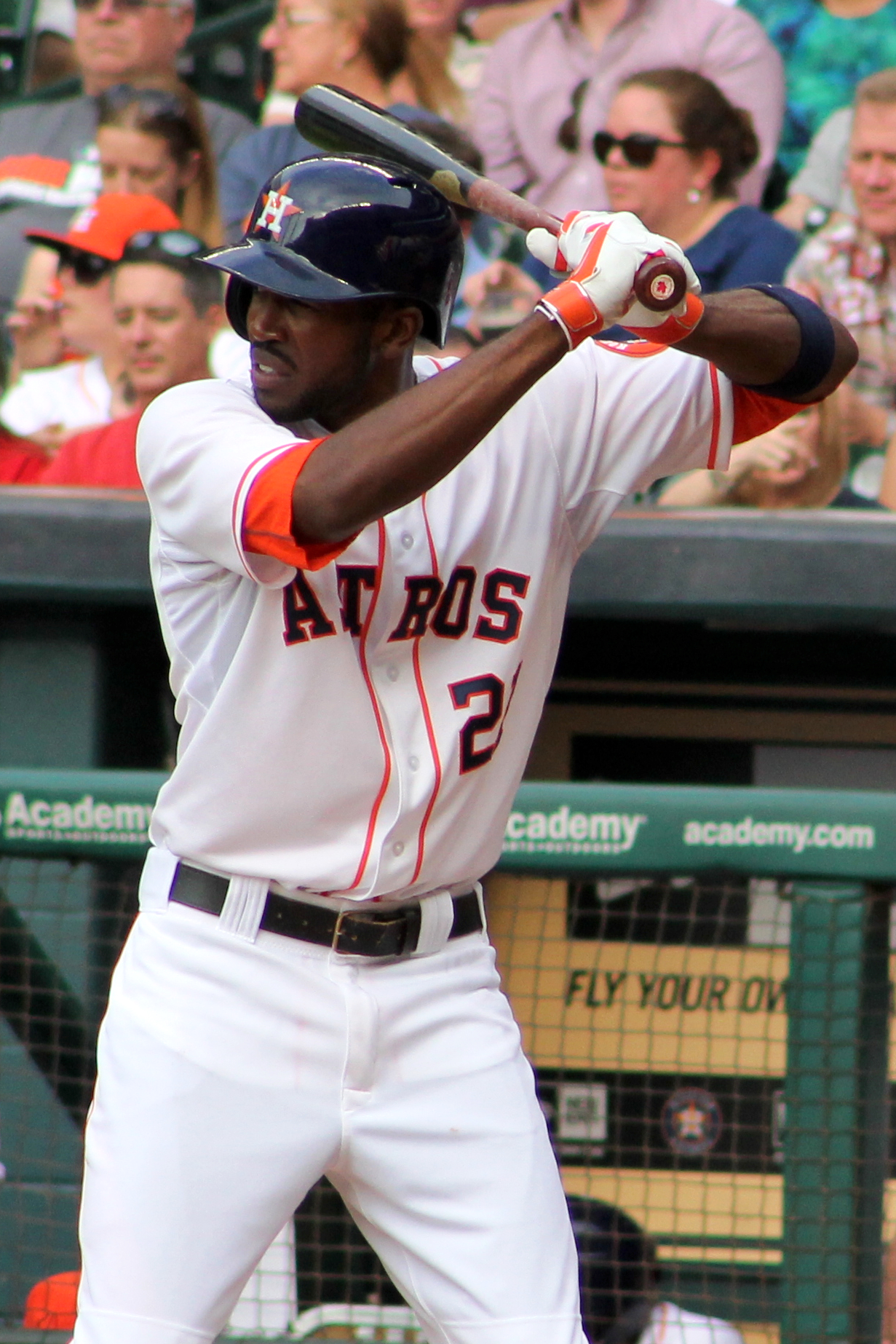 Houston Astros outfielder Dexter Fowler bats during an April 2014 game at Minute Maid Park.